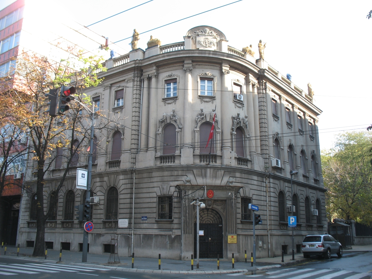 Embassy of Republic of Turkey in Belgrade,also building in which serbian doctor and poet Jovan Jovanović Zmaj lived.